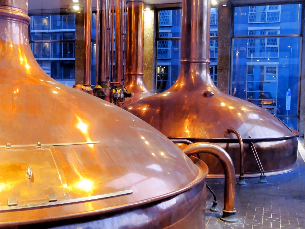 Munich, suburb "Maxvorstadt", Brewery Löwenbräu, Brewing Boiler